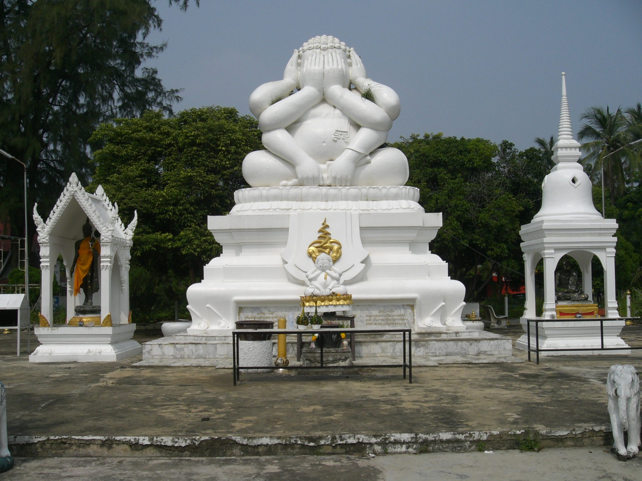 Phra Phit-thawan (พระปิดทวาร) in Wat Neran Chararam (วัดเนรัญชราราม), Cha-am southern Thailand